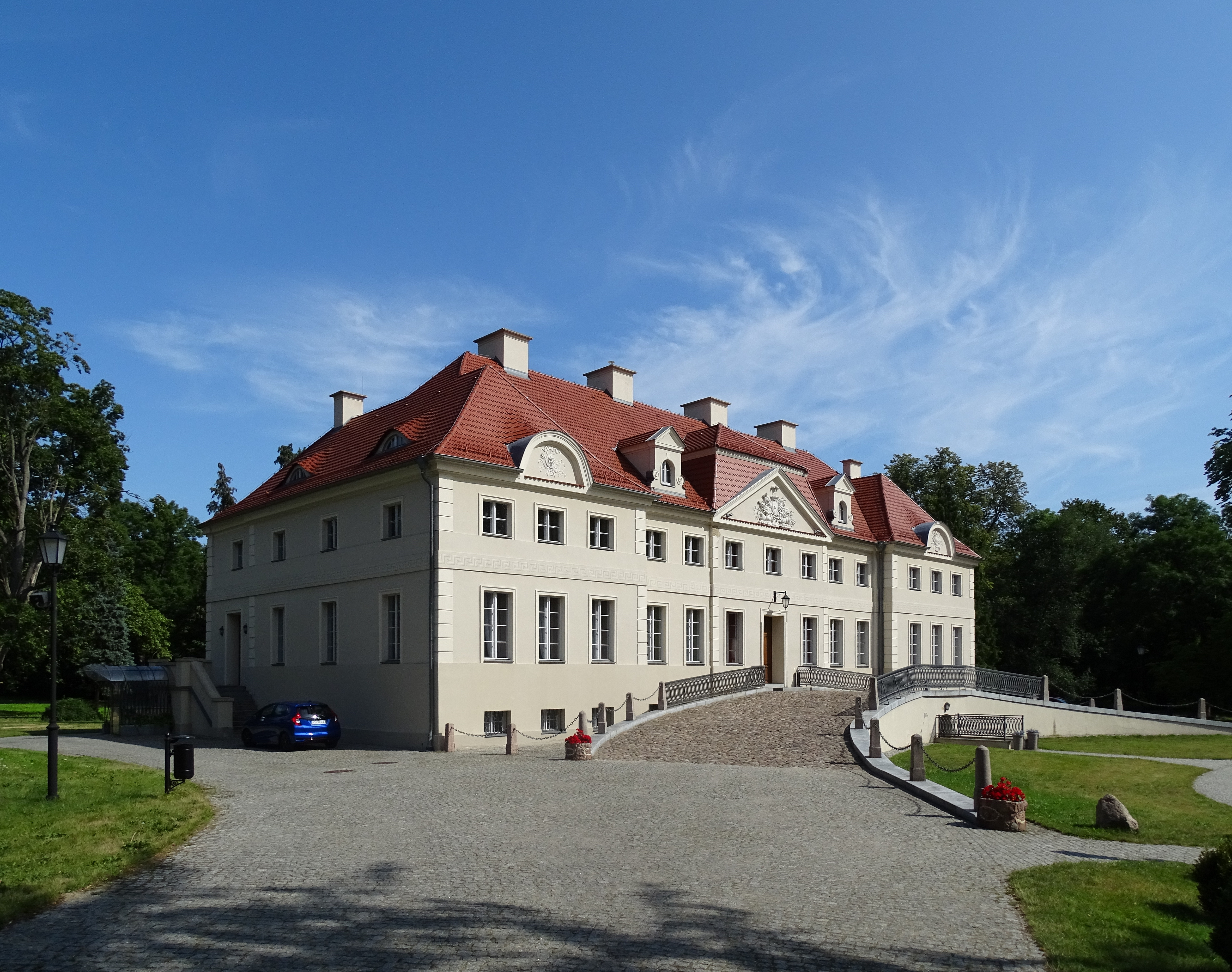 Gułtowy, Greater Poland, Poland. The palace built in the years 1780-1786.